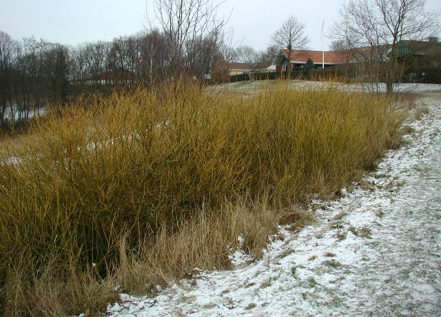 Cornus sericea: Habitus